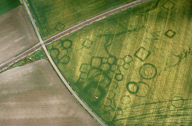 Veľké galské pohrebisko s rôznymi štruktúrami kruhového alebo štvorcového tvaru.